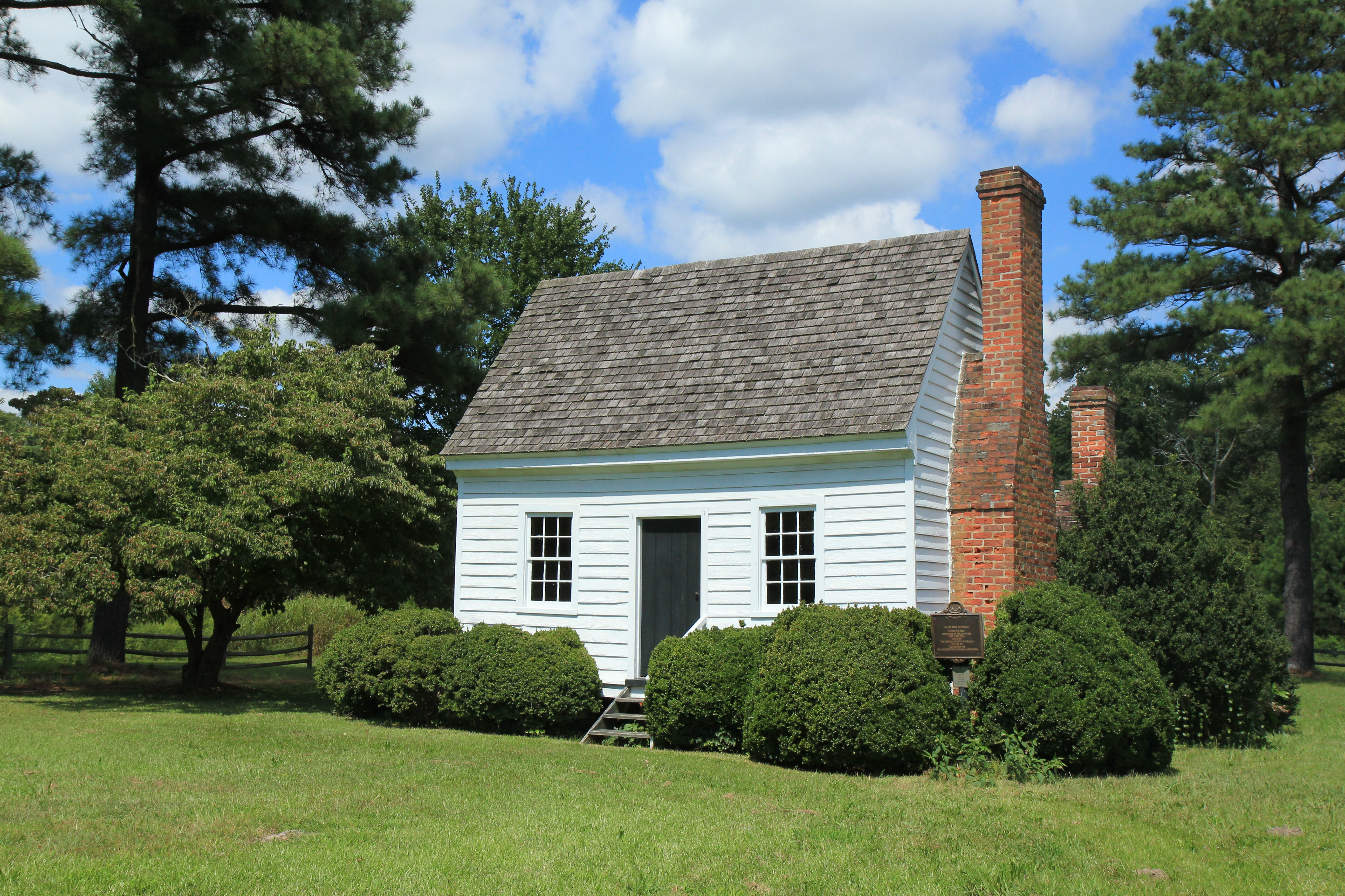 Walter Reed's birthplace, a historic home in Gloucester county.